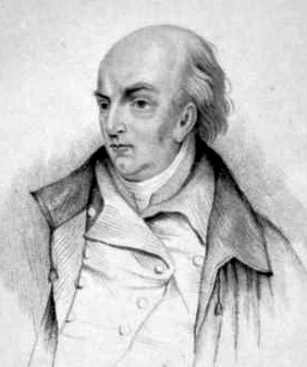 English composer John Wall Callcott (1766-1821) by Burnet Reading (1749-1838).